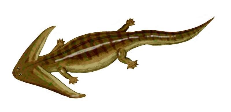 Diplocaulus magnicornis, an early permian lepospondyli, pencil drawing, digital coloring